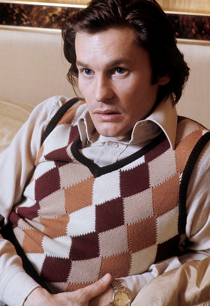 Portrait of Austrian actor Helmut Berger (Helmut Steinberger) in his house. Rome, 1972